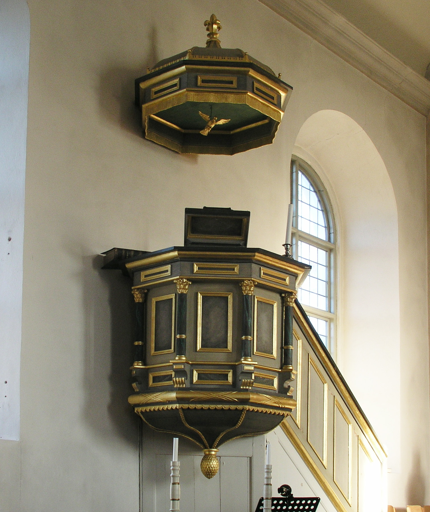 Sjögesta church. Pulpit.